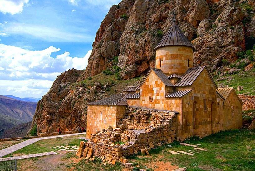 Noravanq Mon., St. Karapet Ch., Armenia